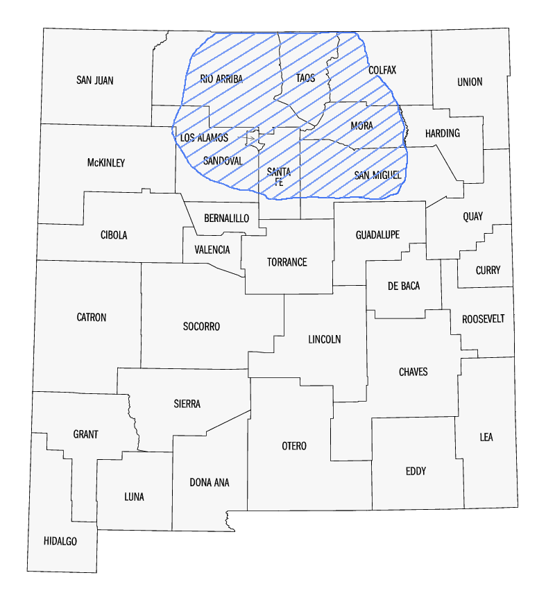 Map of New Mexico, United States, showing the cultural area known as Northern New Mexico (areas of dense Hispanic population since before 1848) with blue hatching. Map is based upon the US Census public domain NM county map, as altered by uploader.